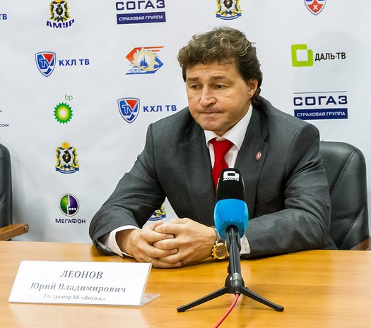 Vityaz Chekhov head coach Yuri Leonov after the KHL-game against Amur Khabarovsk on September 24, 2012 (Vityaz lost 2-3).